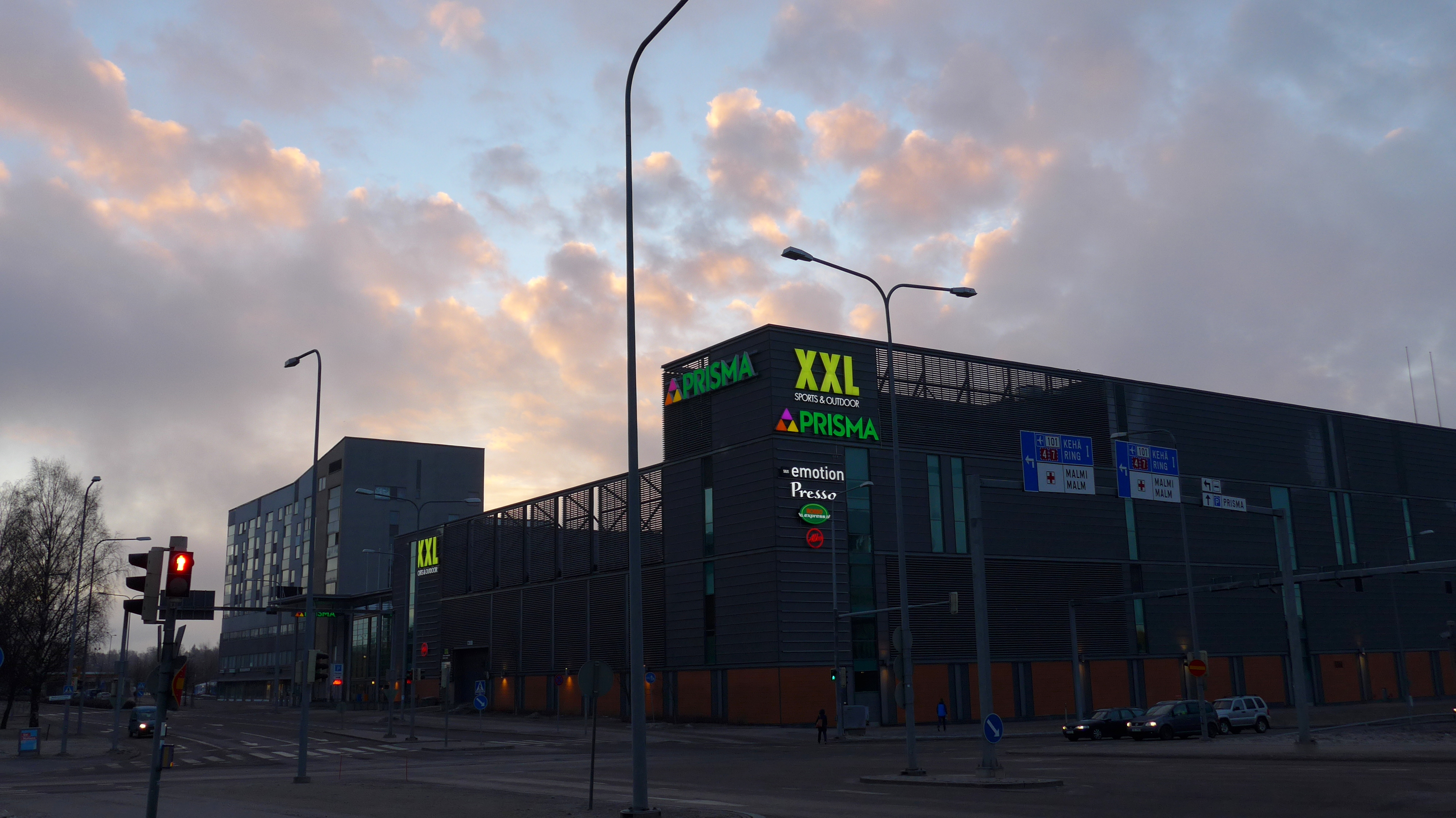 Prisma store in Helsinki